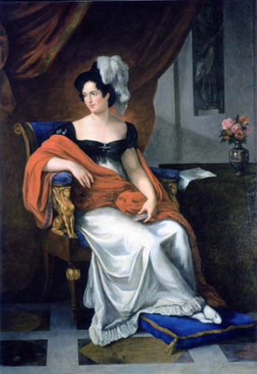 Lucia Migliaccio, duchess of Floridia and morganatic wife of king Ferdinand I of the Two Sicilies